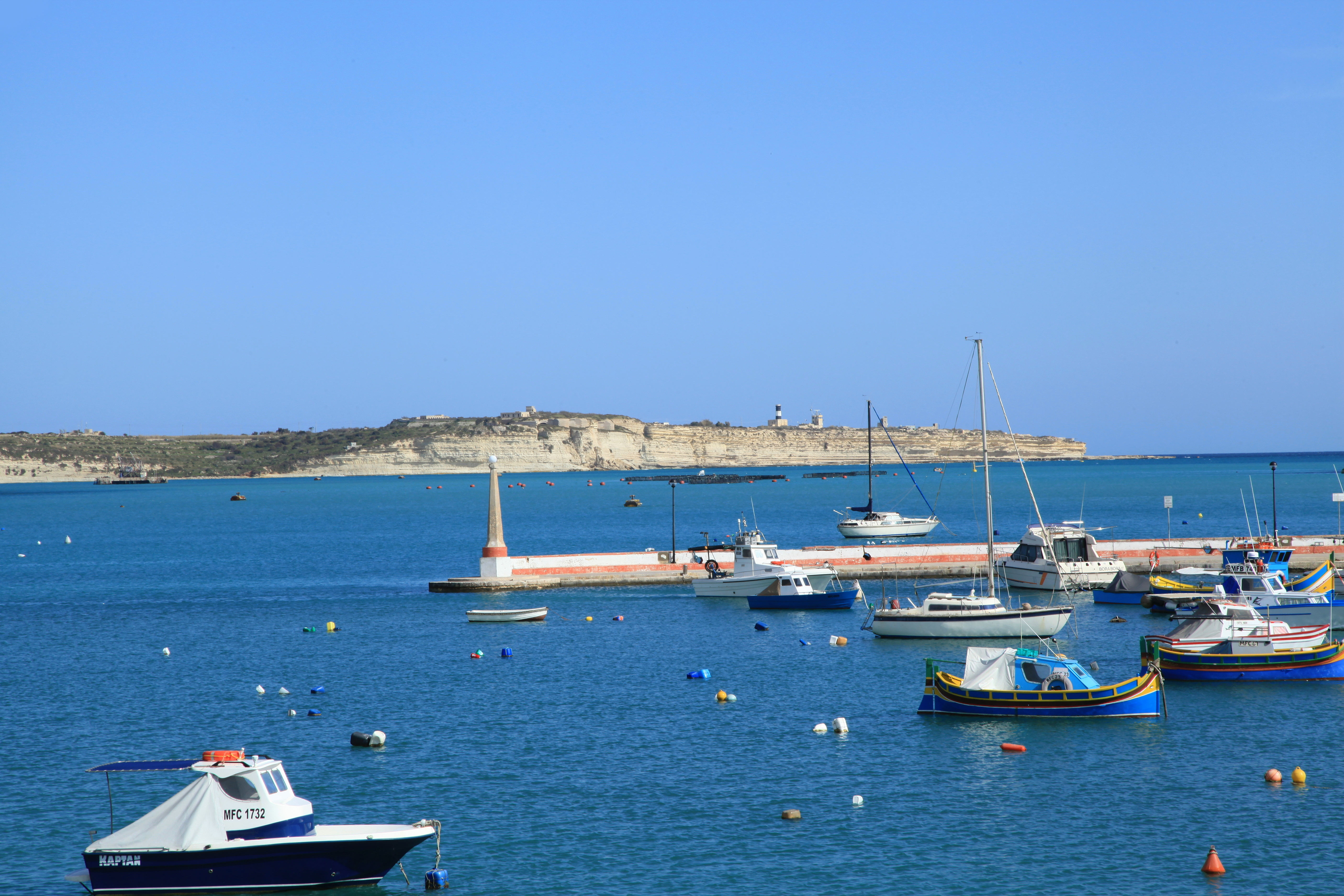 View from the Kappella ta' San Ġorġ Martri over the harbour in Birżebbuġa to the Delimara peninsula in Marsxlokk